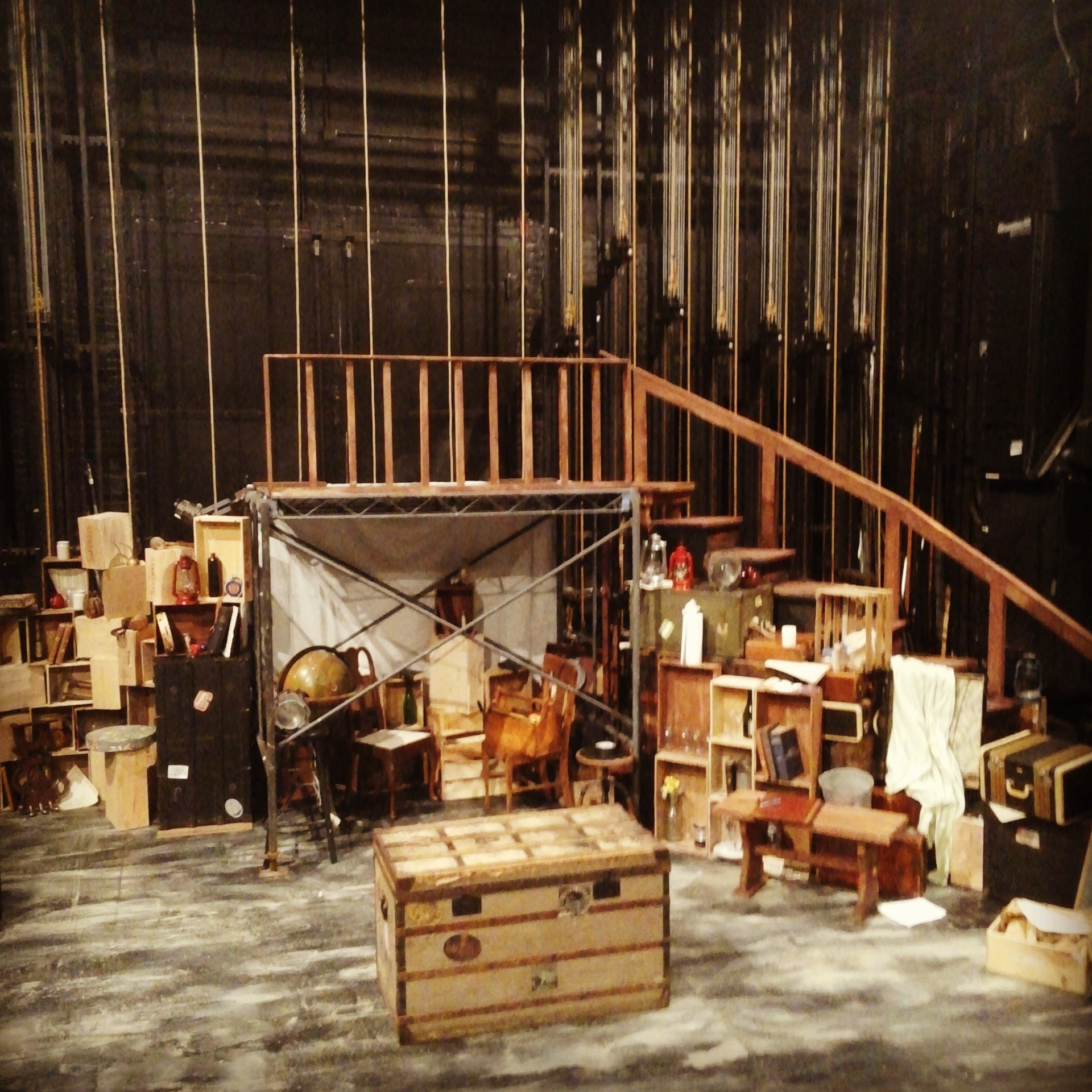 The set for the musical How the Lighthouse Became an Island, presented in April 2016 by the Experimental Theater of Vassar College at the Powerhouse Theater.